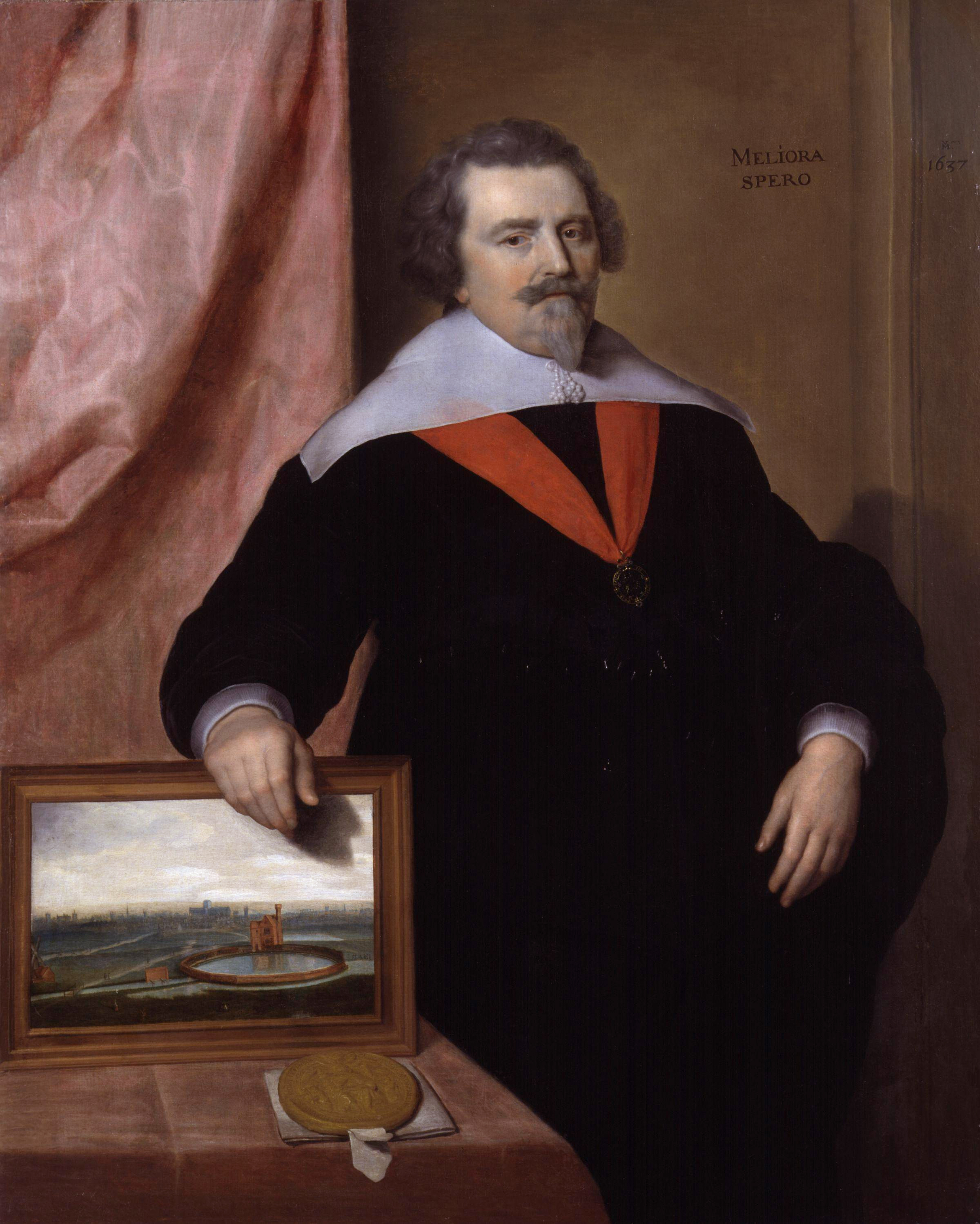 Sir John Backhouse, by 'VM' (floruit 1634-1637). All images in this batch have a known author with unknown death date, but according to the NPG's website the author was floruit (known to be active) prior to 1859, and so is reasonably presumed dead by 1939.